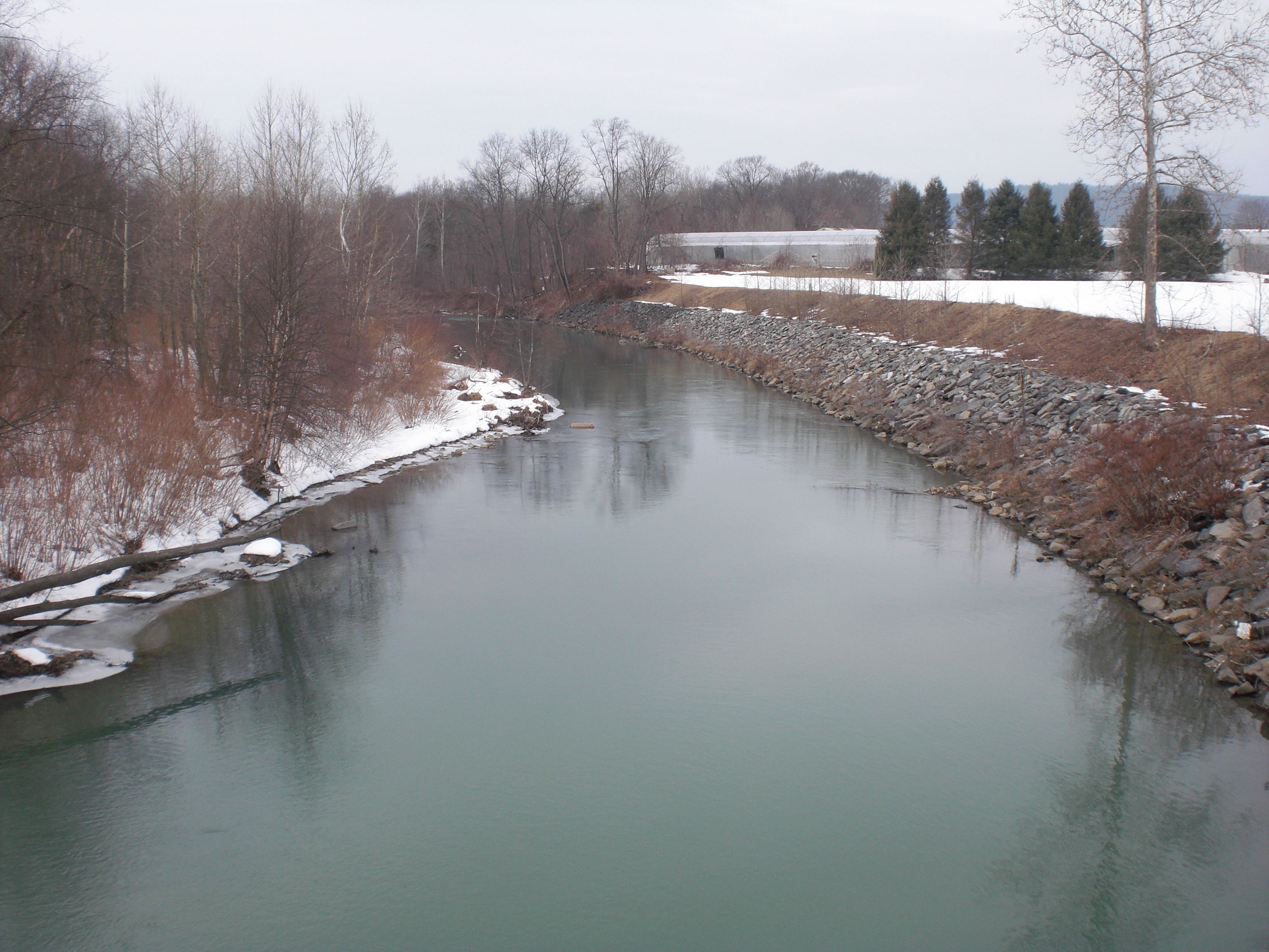 Nescopeck Creek from the Pennsylvania Route 339 bridge